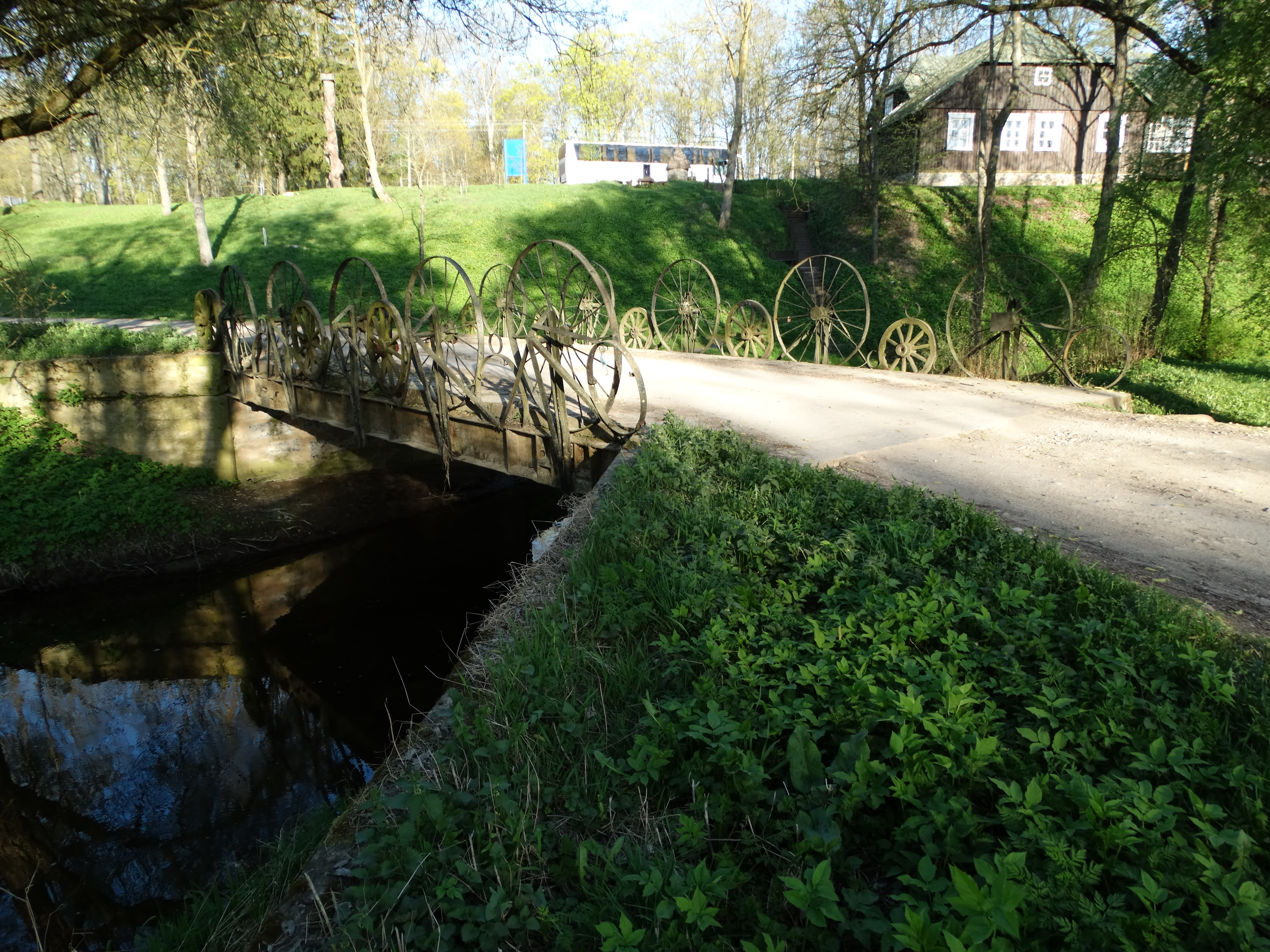 Liaudė River in Paberžė, Kėdainiai District, Lithuania